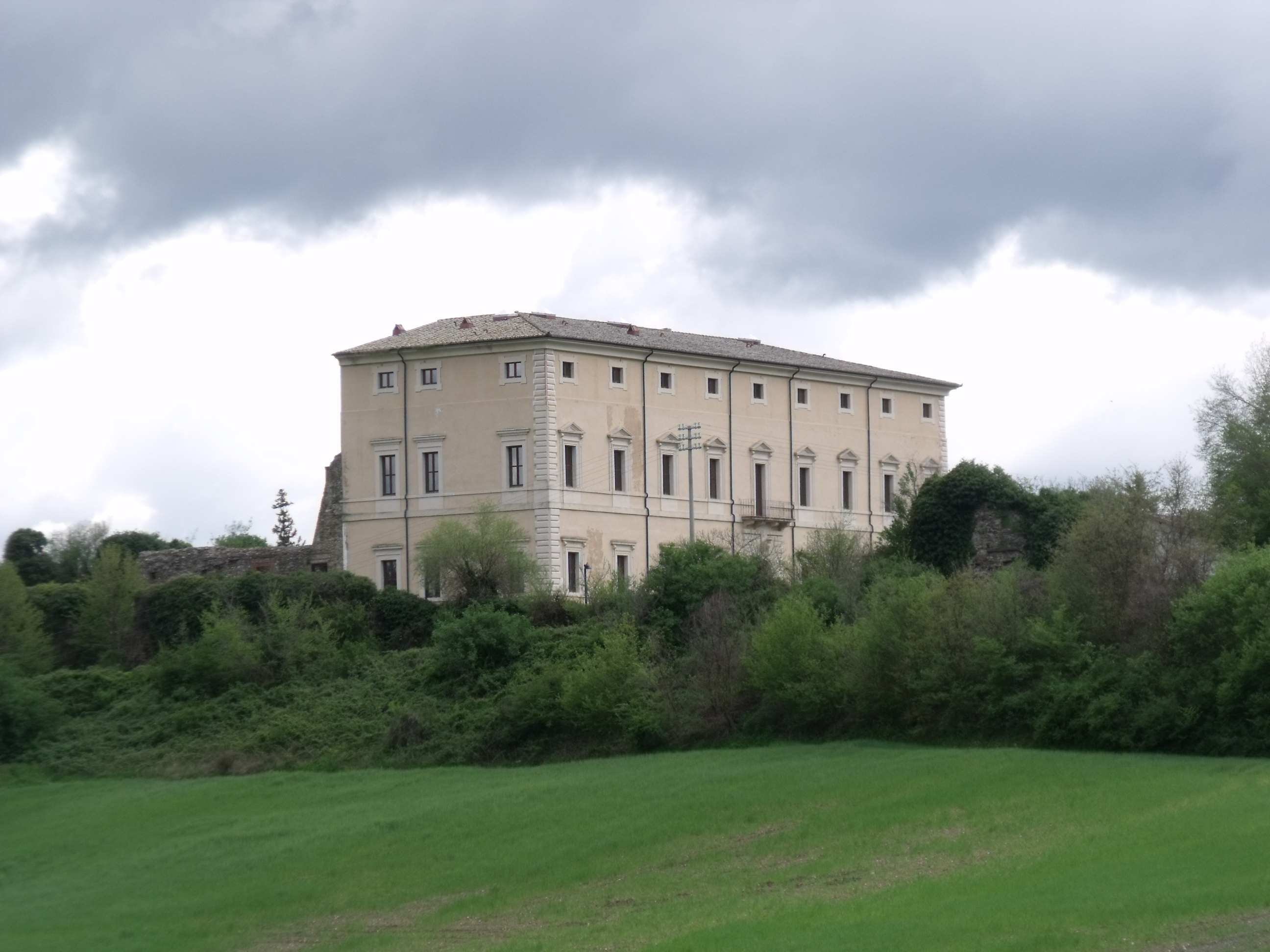 Villa Sforzesca in Siele (Valle Calda), Castell’Azzara, Province of Grosseto, Tuscany, Italy